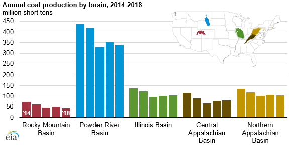 Of the five major coal-producing basins, two saw increased production in 2018 compared with 2017. January 25, 2019